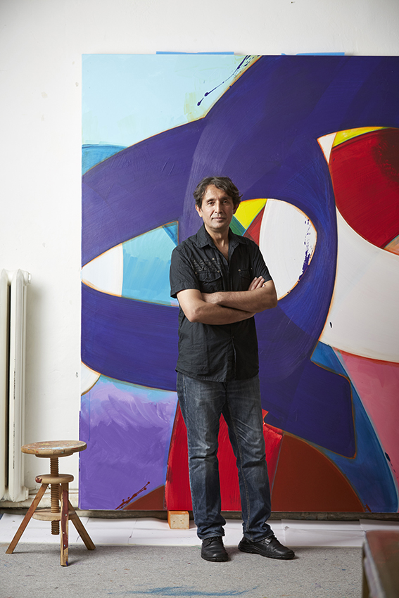 Portrait of the artist Aatifi